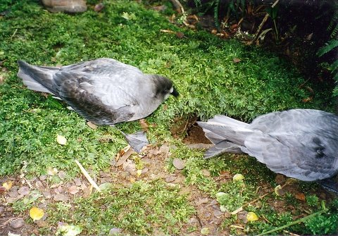 Providence Petrels after being "called down" by a screeching tour guide Jack Schick, at Mount Gower, Lord Howe Island